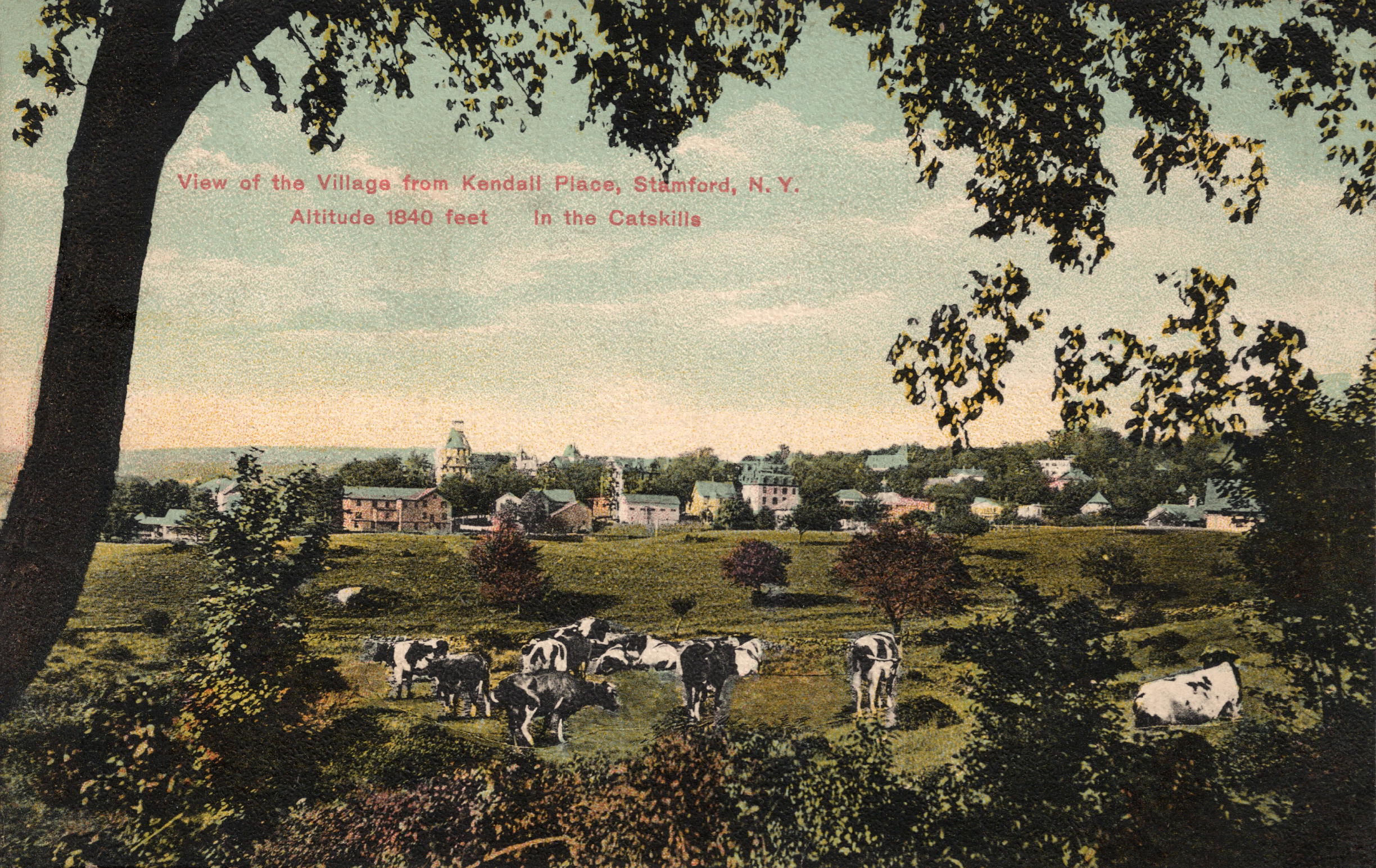 View of the village of Stamford, New York, from Kendall Place. In the Catskill Mountains. Back is divided. Published by NEWVOCHROME, NYC, NY, Leipzig, Dresden, Berlin. Printed in Germany.